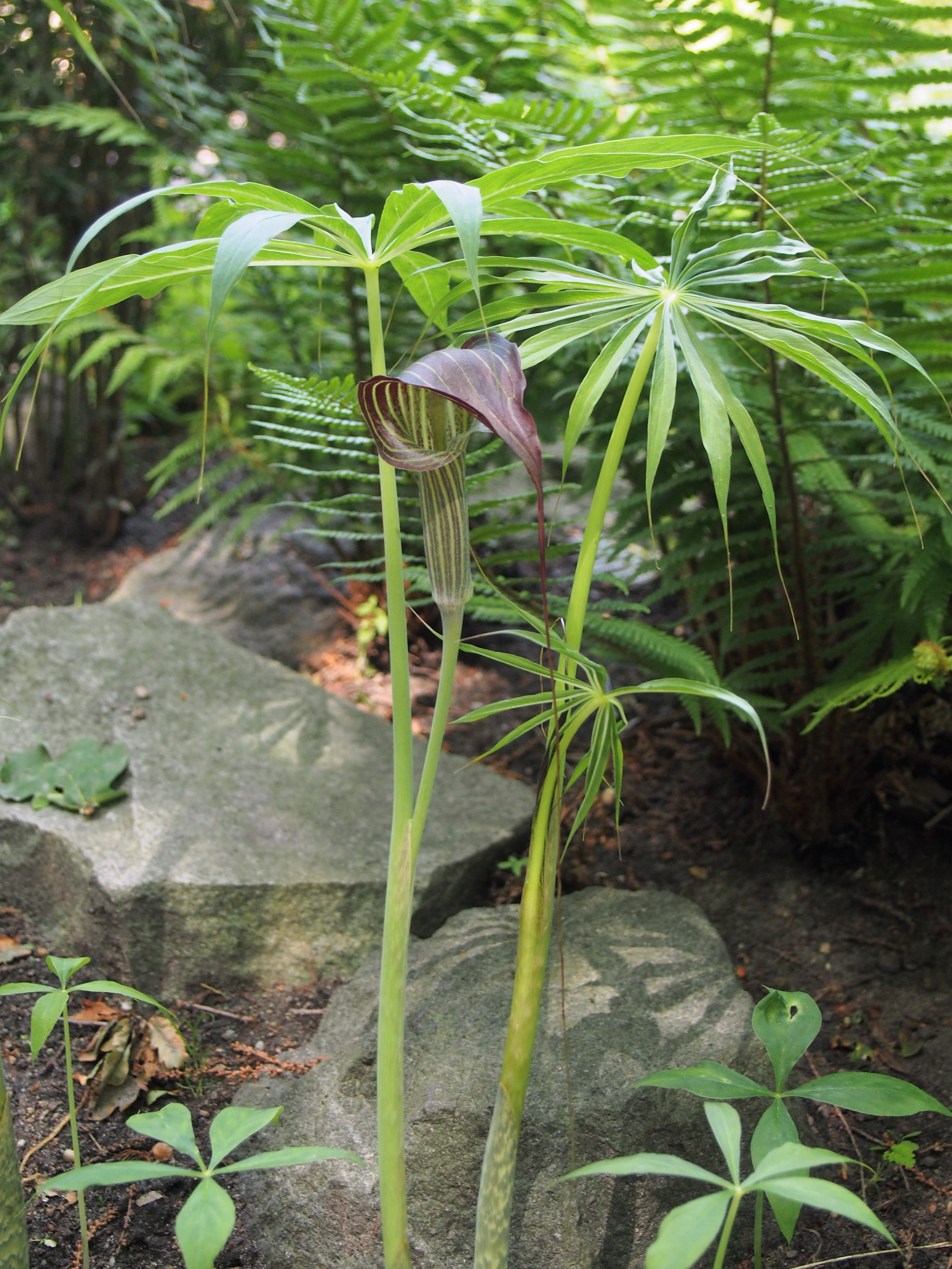 Arisaema erubescens flowering plant, cultivated in Wrocław University Botanical Garden, Wrocław, Poland.